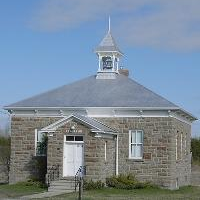 Picture of the North Grenville Archives, Actons Corners, Ontario, taken by Sean Harris on 29 April 2005.